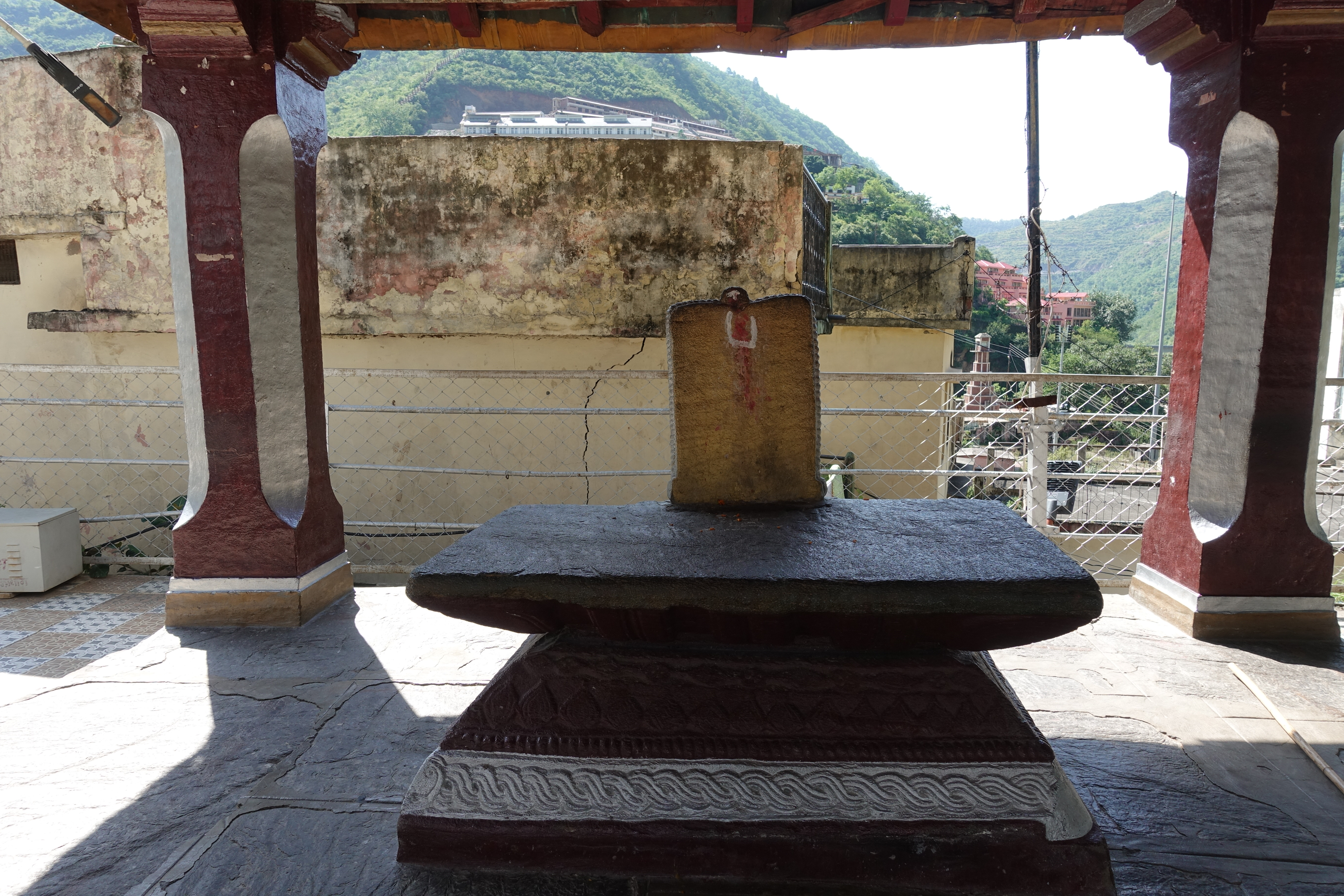 Place where Lord Raghunath (Lord Ram) performed penance